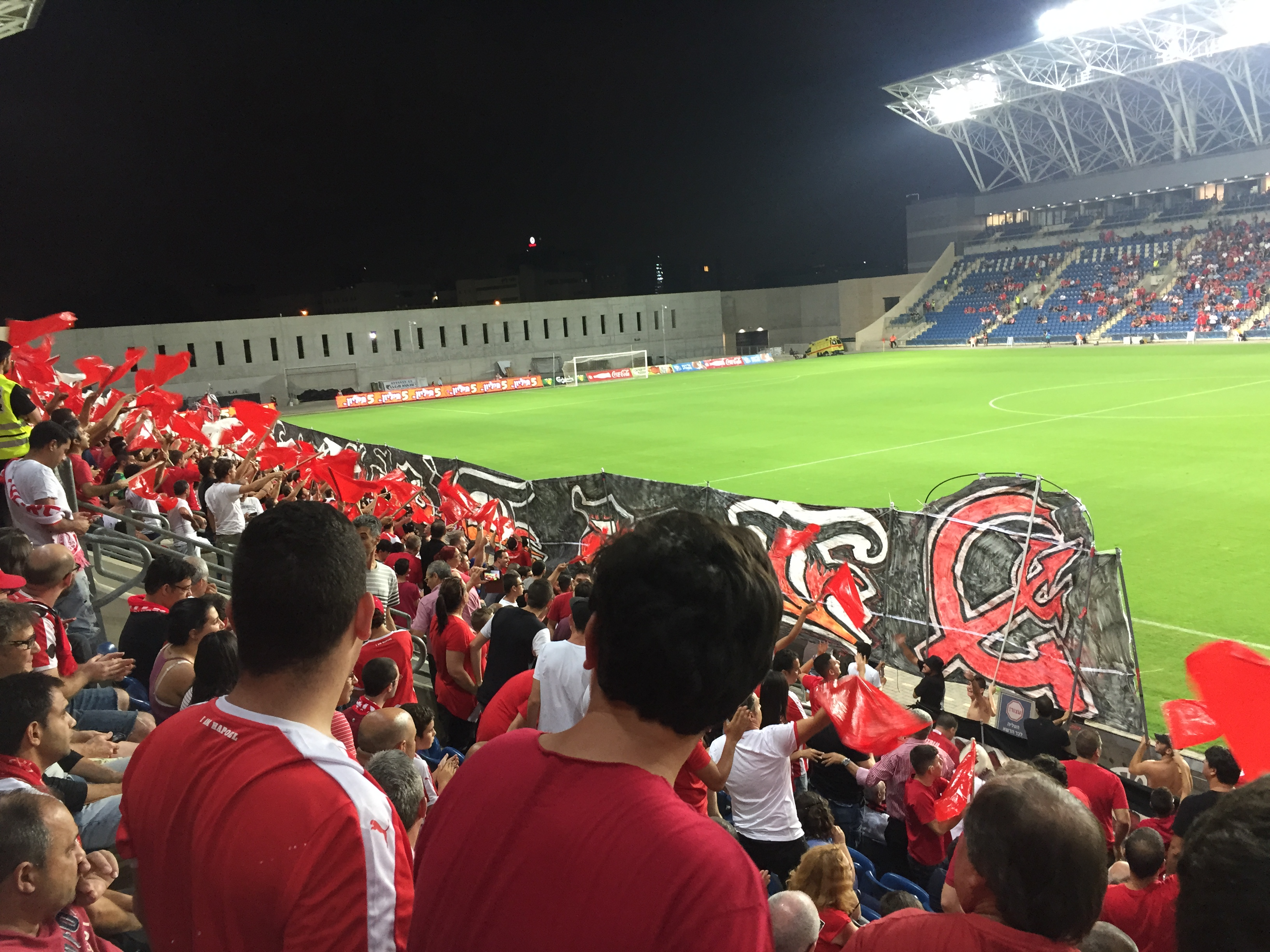 Hapoel Tel Aviv Fans in HaMoshava Stadium, 2016